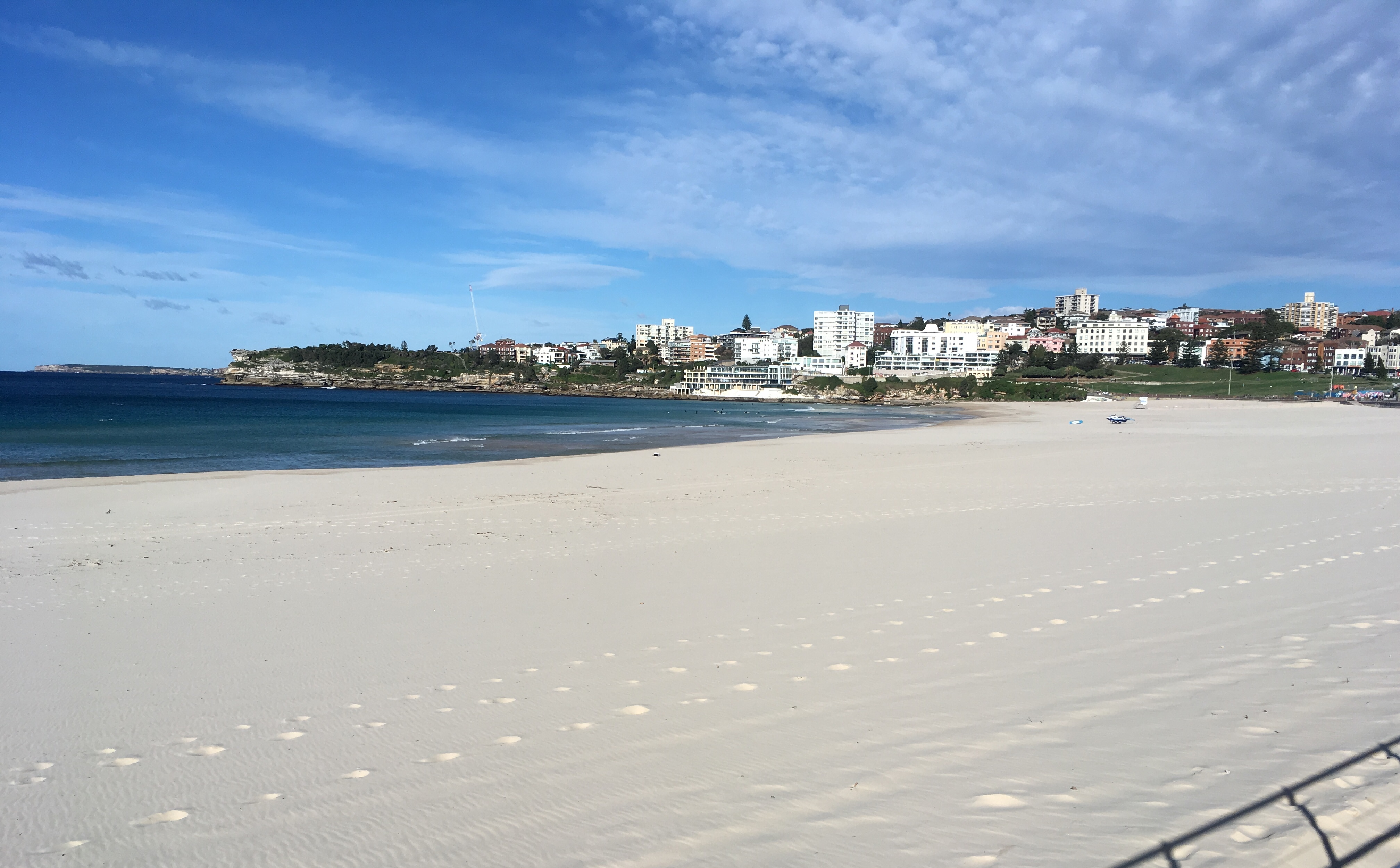 Bondi beach closure due to covid 19 social distancing policy.